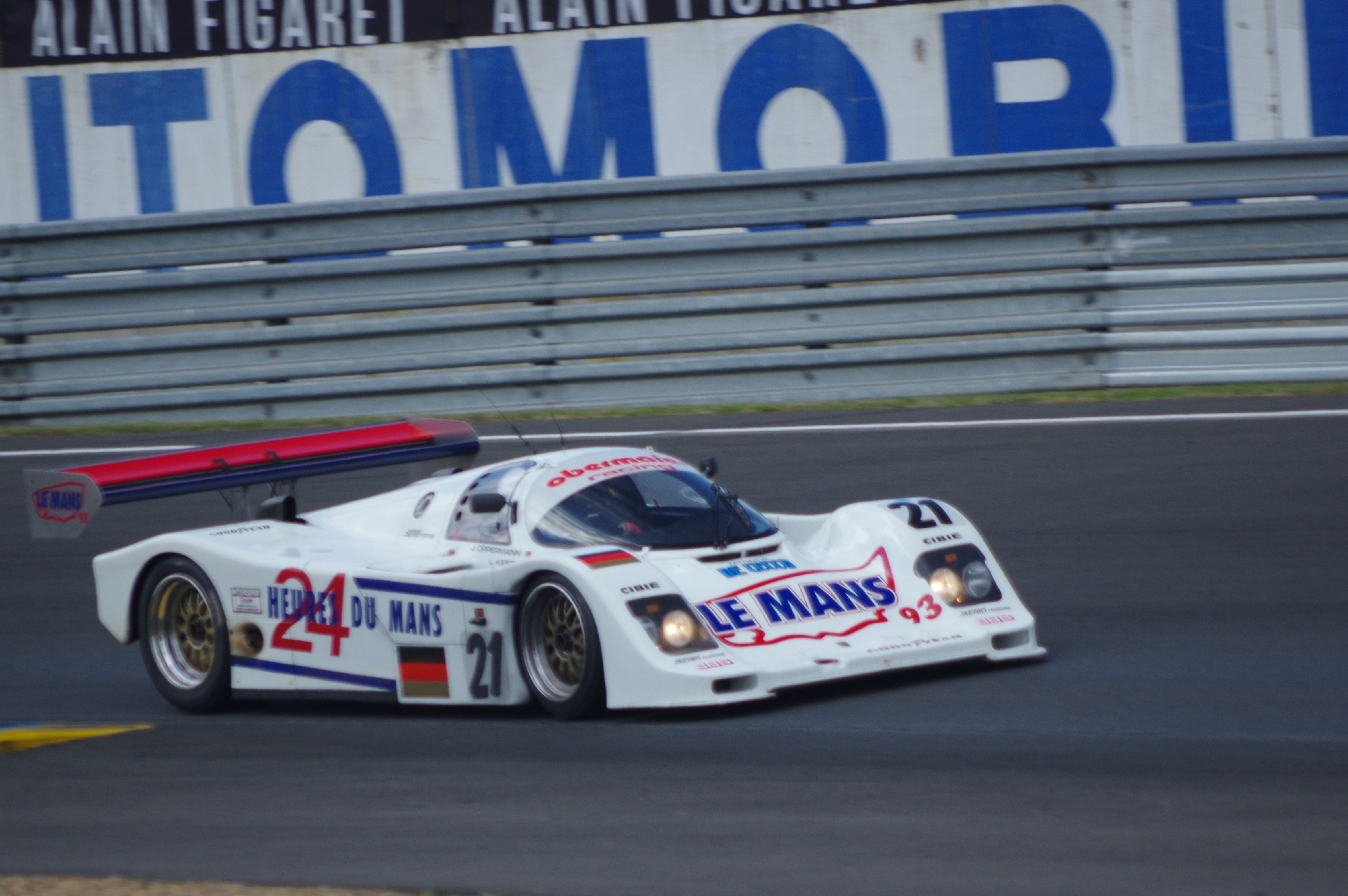 Group C Racing - Le Mans Classic 2016 - Porsche 962C - Obermaier Racing